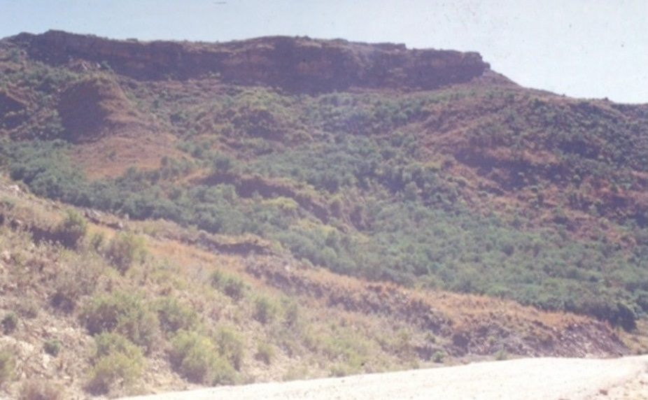 Upper giraliwdo